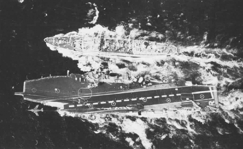 Overhead view of the British Royal Navy aircraft carrier HMS Ark Royal (R09) in 1970. A Royal Fleet Auxiliary is steaming alongside while a Blackburn Buccaneer S.2 was just launched.